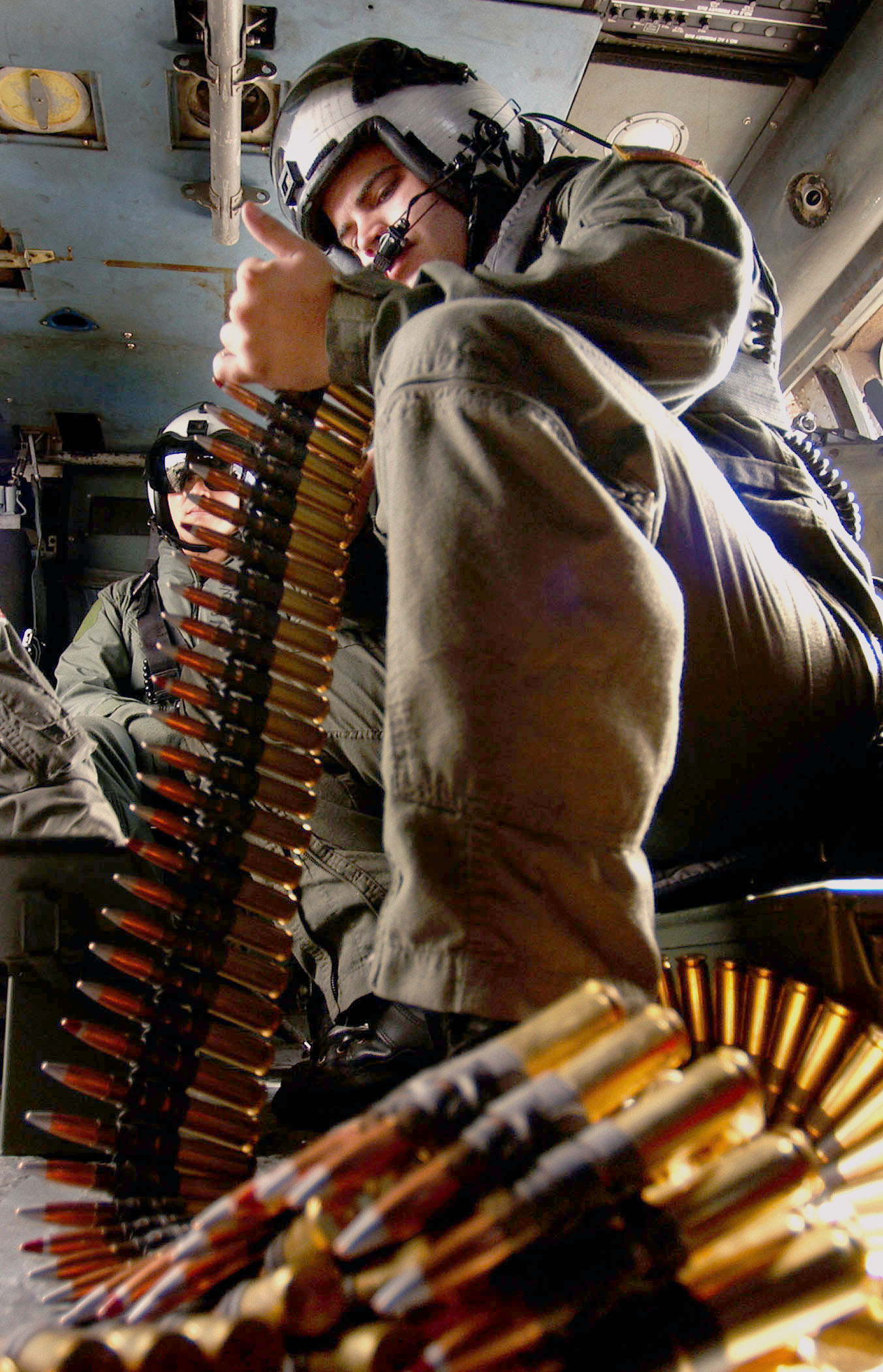 Pacific Ocean (Nov. 2, 2003) -- Aviation Warfare Systems Operator 2nd Class Rusty Dewoody, from Cleveland, Ohio, inventories .50-caliber machine gun rounds in preparation for a live fire exercise. Petty Officer Dewoody is assigned to the "Black Knights" of Helicopter Anti-Submarine Squadron Four (HS-4) at sea with USS John C. Stennis (CVN 74) and Carrier Air Wing Fourteen (CVW-14) conducting Composite Training Unit Exercise (COMPTUEX) in preparation for an upcoming deployment. U.S. Navy photo by Photographer's Mate 2nd Class Jayme Pastoric. (RELEASED)